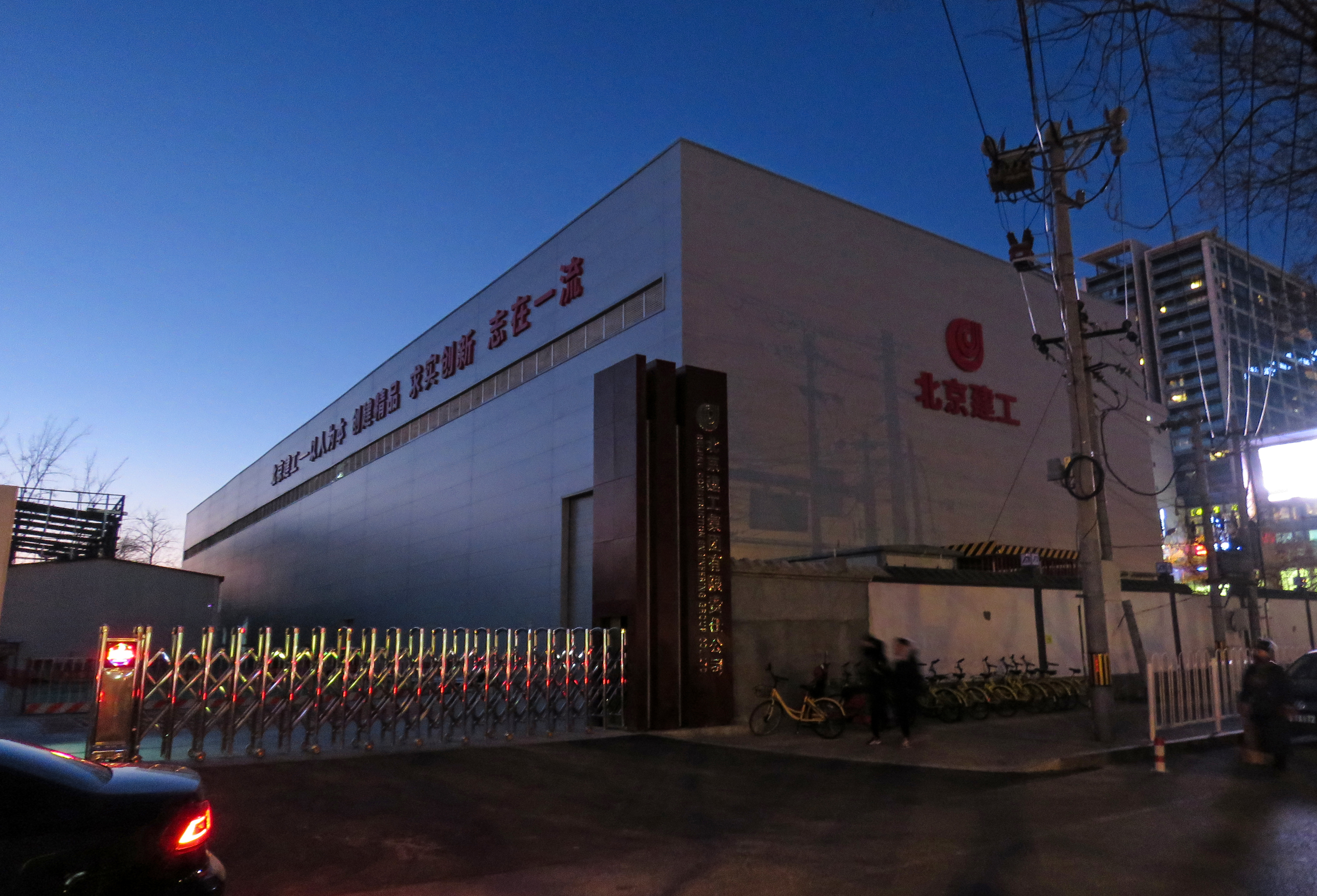 Interchange station for Line 17, but its English name has not yet been revealed. After all, the information board only mentioned Line 3.